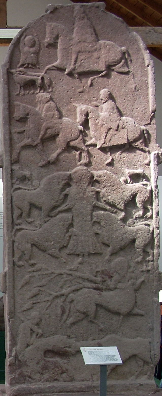 Back of Meigle 2 Pictish stone, showing Daniel in the lions' den. Local folklore interprets this as Vanora, wife of King Arthur, also known as Guinevere, being fed to wild beasts after she was abducted by King Mordred and returned to Arthur.